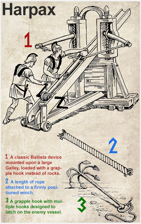 Harpax - A weapon developed for naval warfare in the 1st century BC by the Roman Navy.